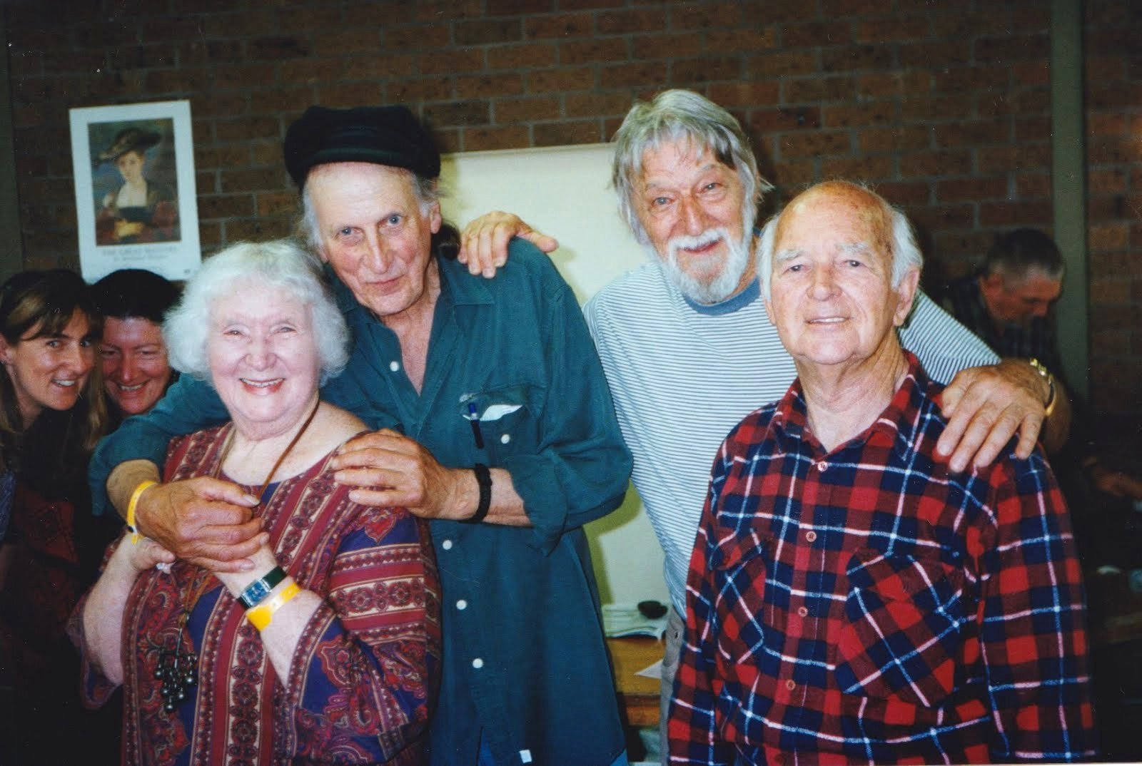 The Rambleers formed in 1957 after the breakup of The Bushwhackers (1952-1957)